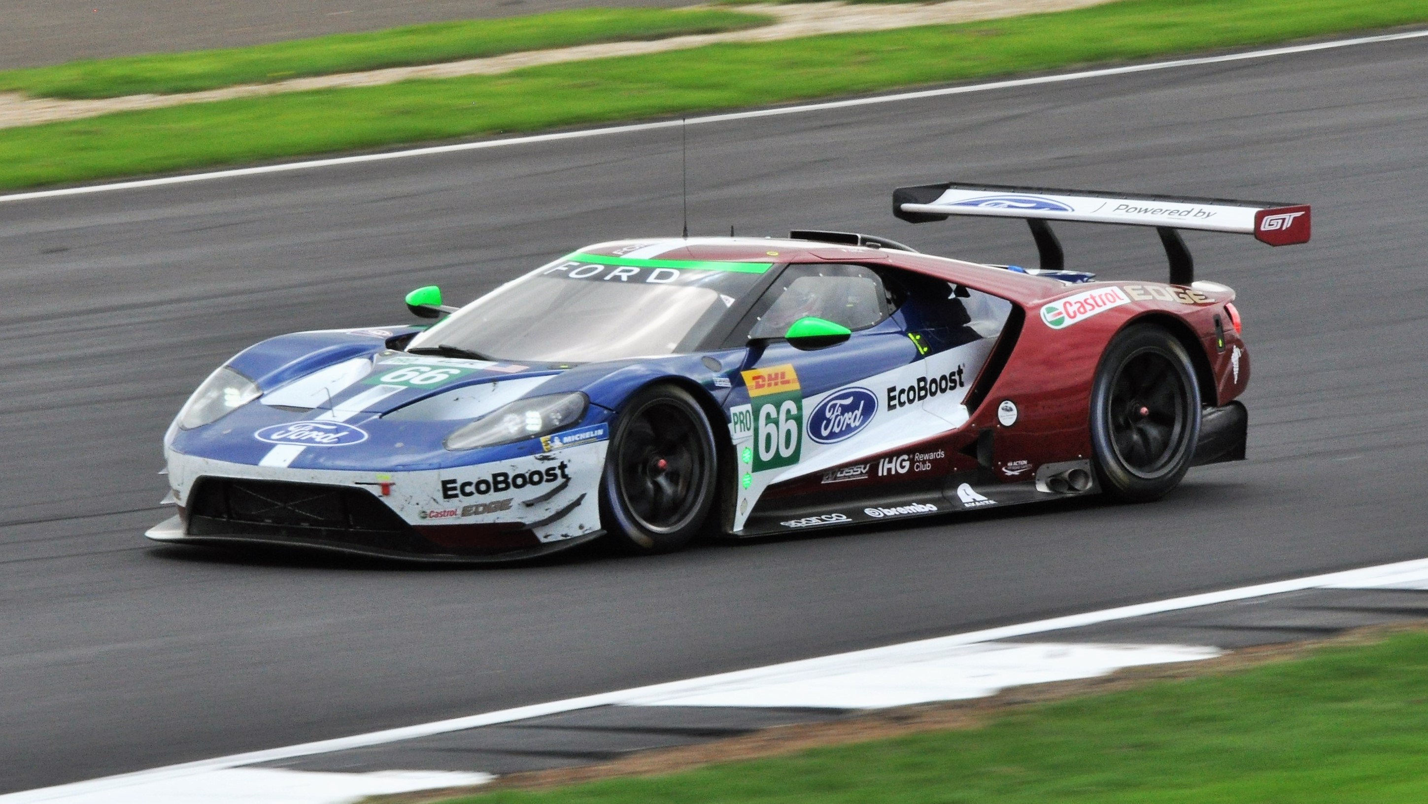 German driver Stefan Mücke in the number 66 Chip Ganassi Team UK entry, at Village corner during the 2018 6 Hours of Silverstone race. Mücke and his co-driver, French driver Olivier Pla, were running second in the LMGTE Pro class at the time this photo was taken, but the car slipped to sixth in class by the end of the race.